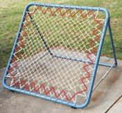 frame_front_30